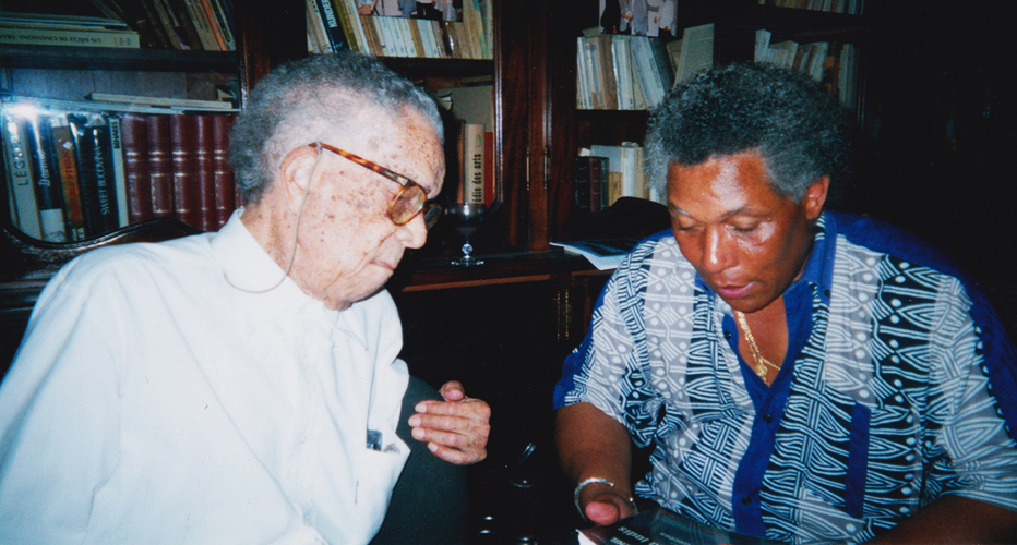 Jonas rano et René Ménil